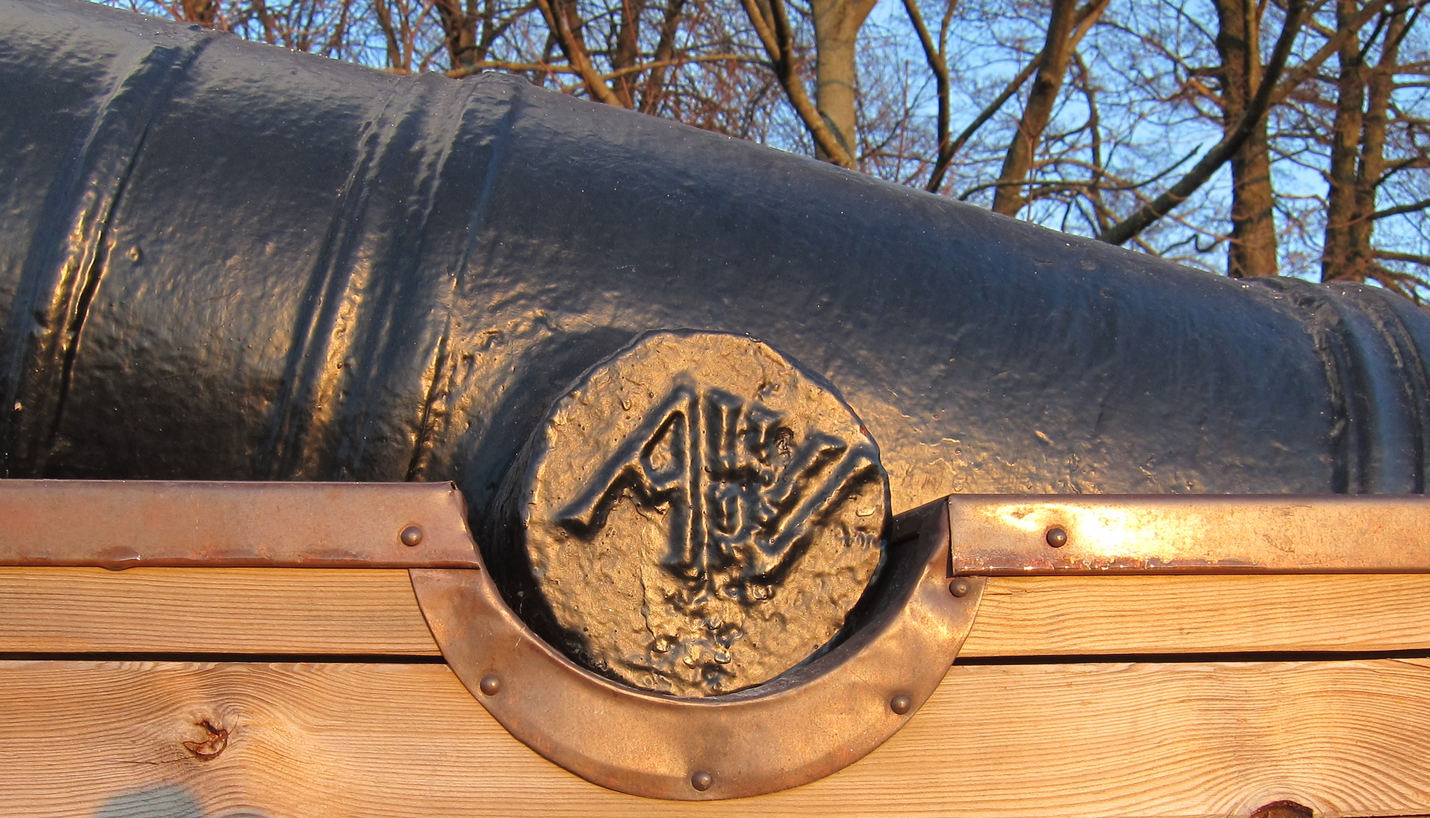 The cannon was manufactured at Moss Ironworks in 1762 and found and recovered in Vardø in 1970, it is now on display beside the main building of the old iron works in Moss. The insignia AW is for the partnership that owned the ironworks, Ancher & Wærn